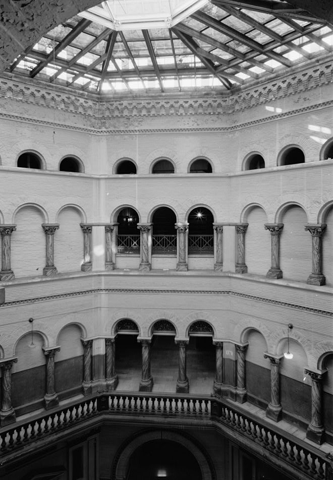 Tweed Courthouse on Chambers Street, New York, New York (Manhattan) - interior court.